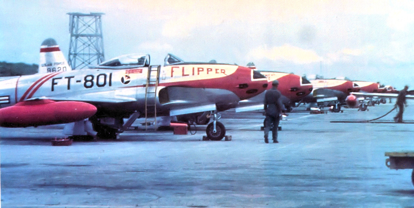 25th Fighter Squadron - F-80C 49-801 Itazuke Air Base, Japan, 1950